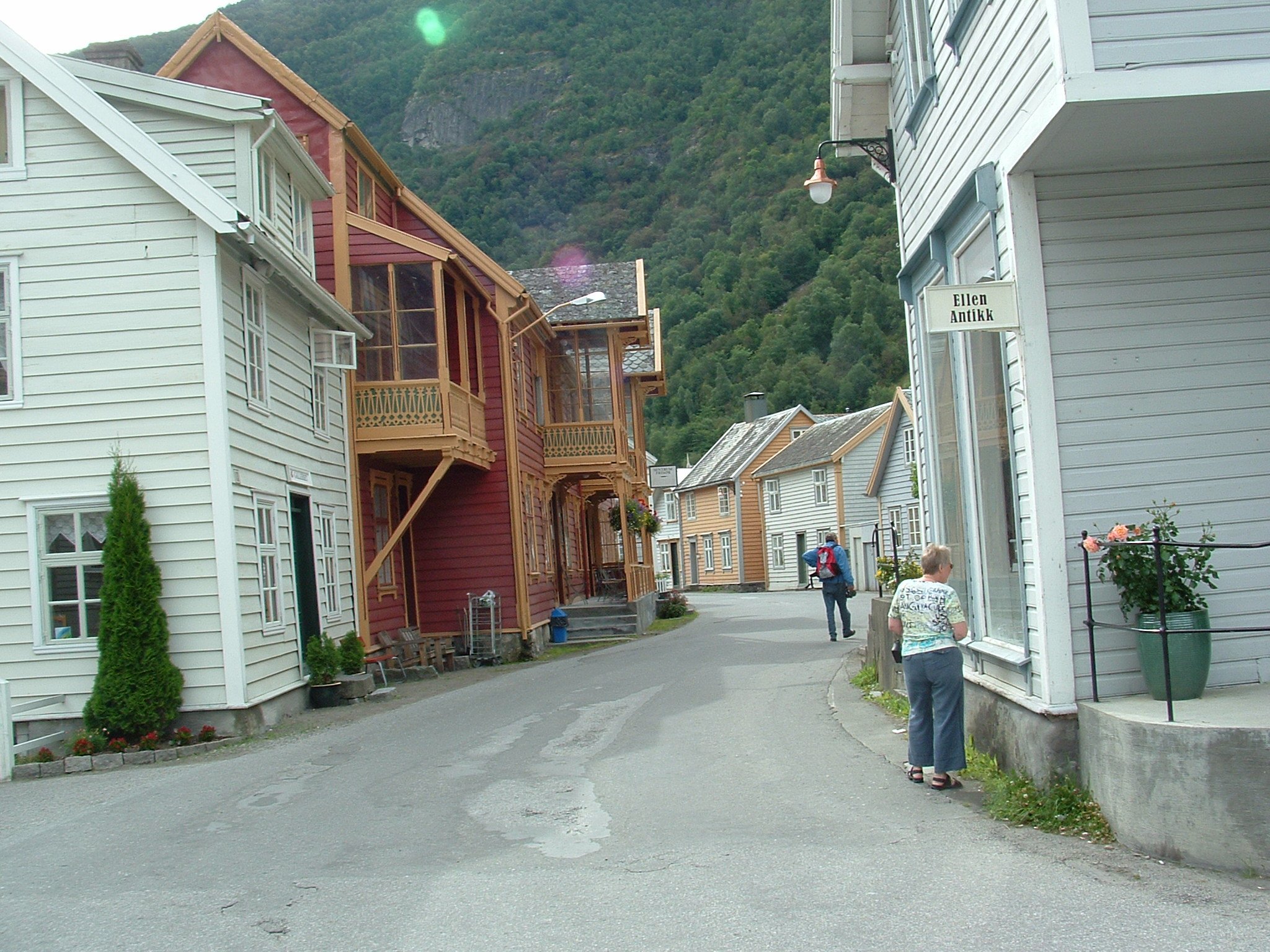 Street from Lærdalsøyri, with old wooden houses, antiquarily protected from serious changes on outside